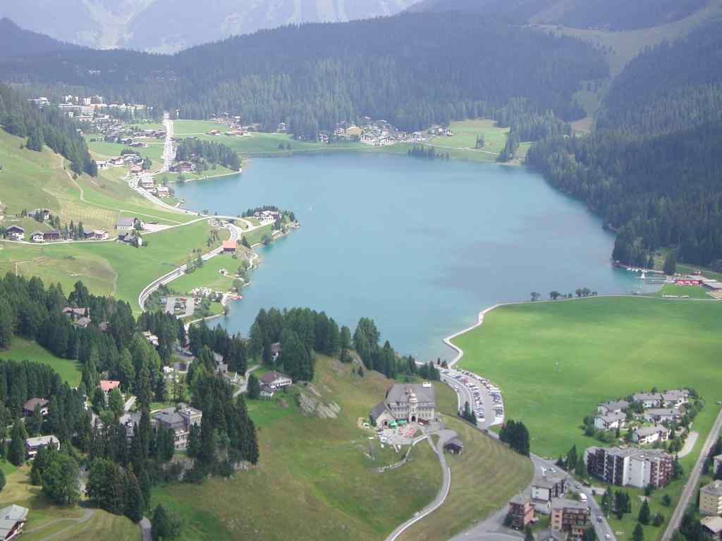 Lake Davos in Switzerland - taken from paraglider